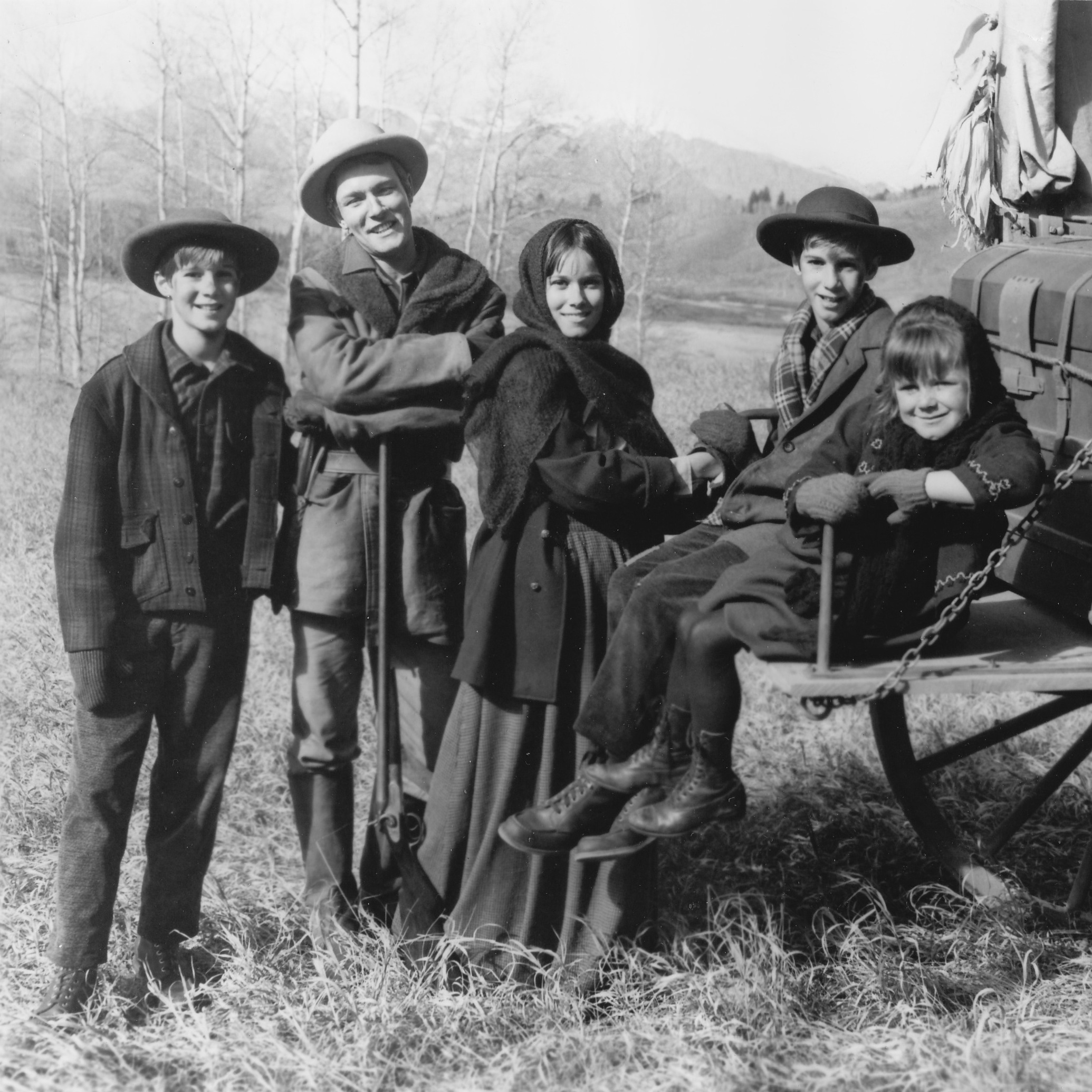 Publicity photo of the cast of the ABC television series The Monroes; (L–R) Kevin Schultz, Michael Anderson, Jr., Barbara Hershey, Keith Schultz, and Tammy Locke, circa 1966